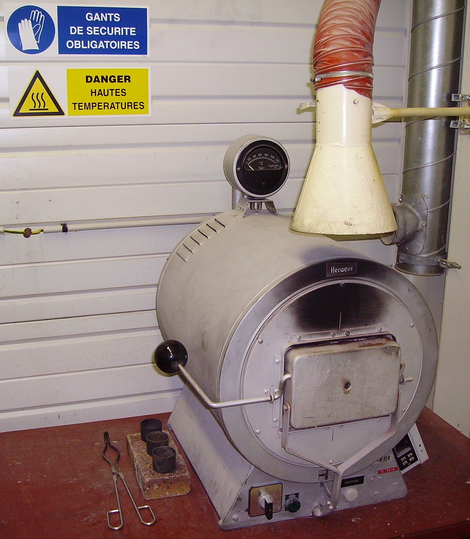 Laboratory muffle furnace Heraeus model KR 170. Maximum temperature: 1 150 °C; 14 A, 24 electrical resistances. Three metal crucibles and tongs are visible. Used for calcination, ash content…